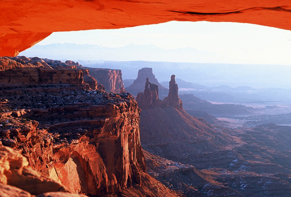 Washer Woman formation viewed through Mesa Arch at sunrise.